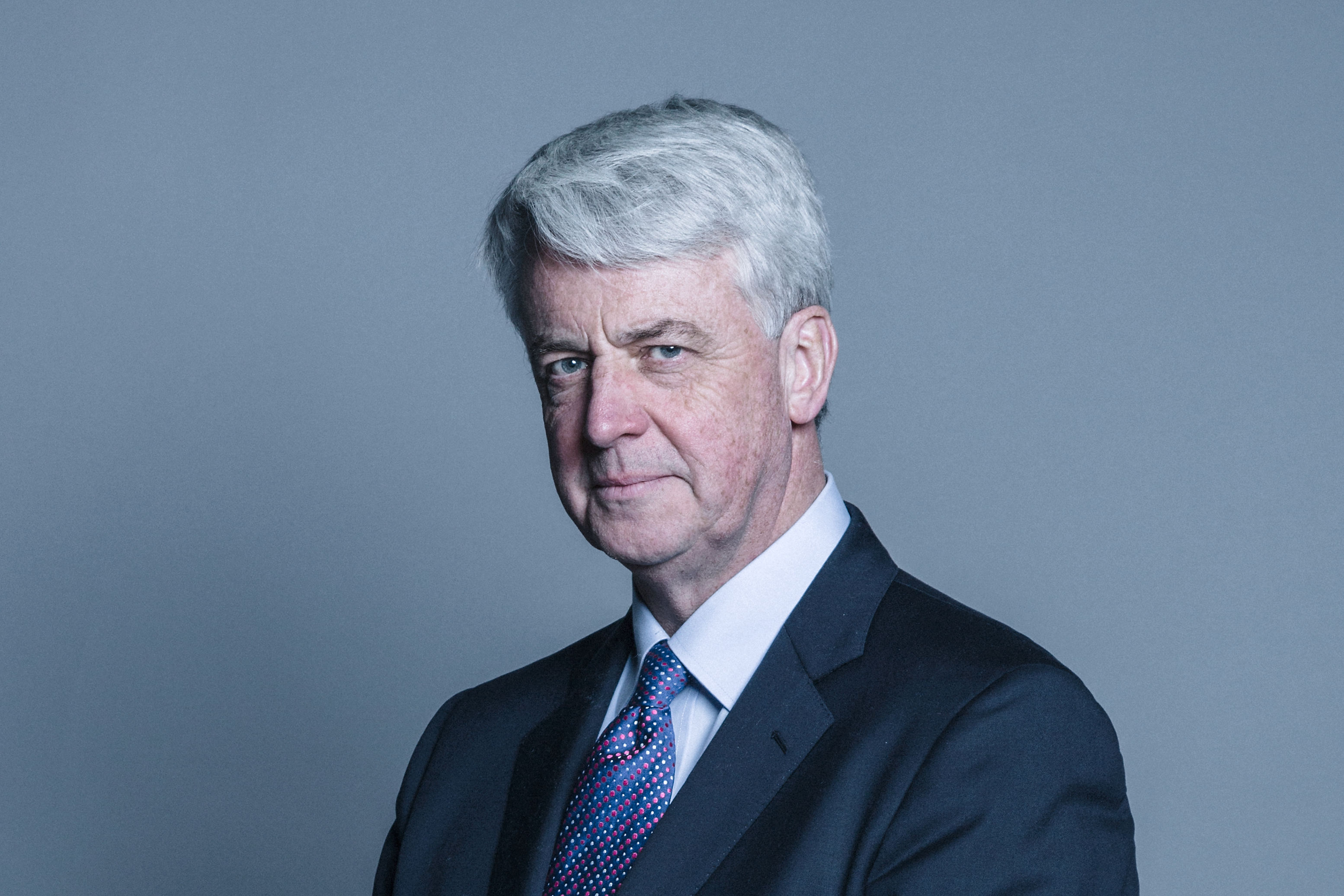 Official portrait of Lord Lansley